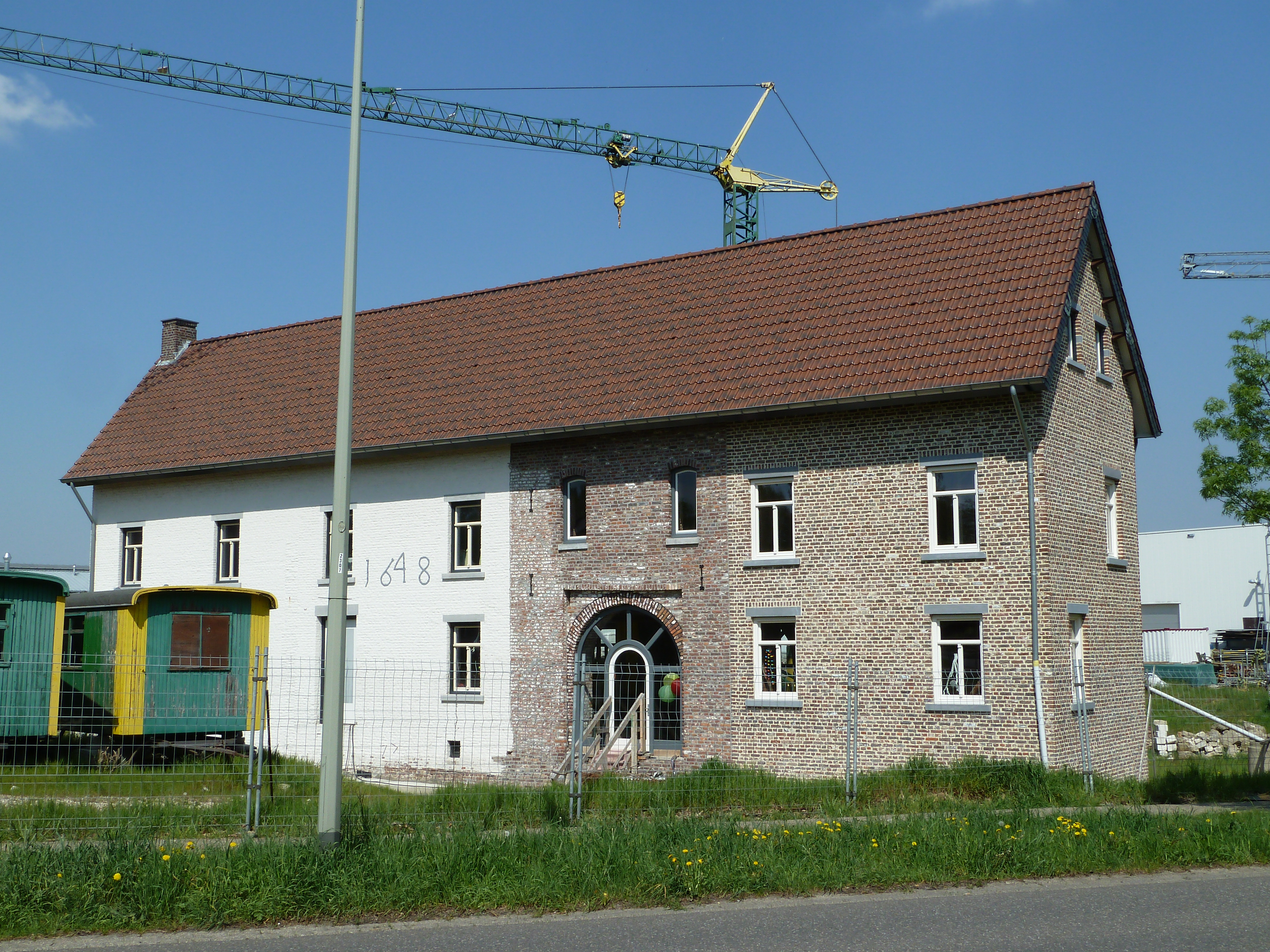 Castle Gen Hoes, Brunssum, Limburg, the Netherlands